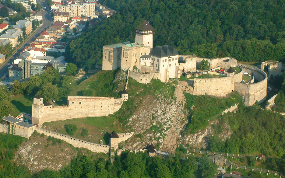 Air view of Trencin castle, Slovakia from sport plane